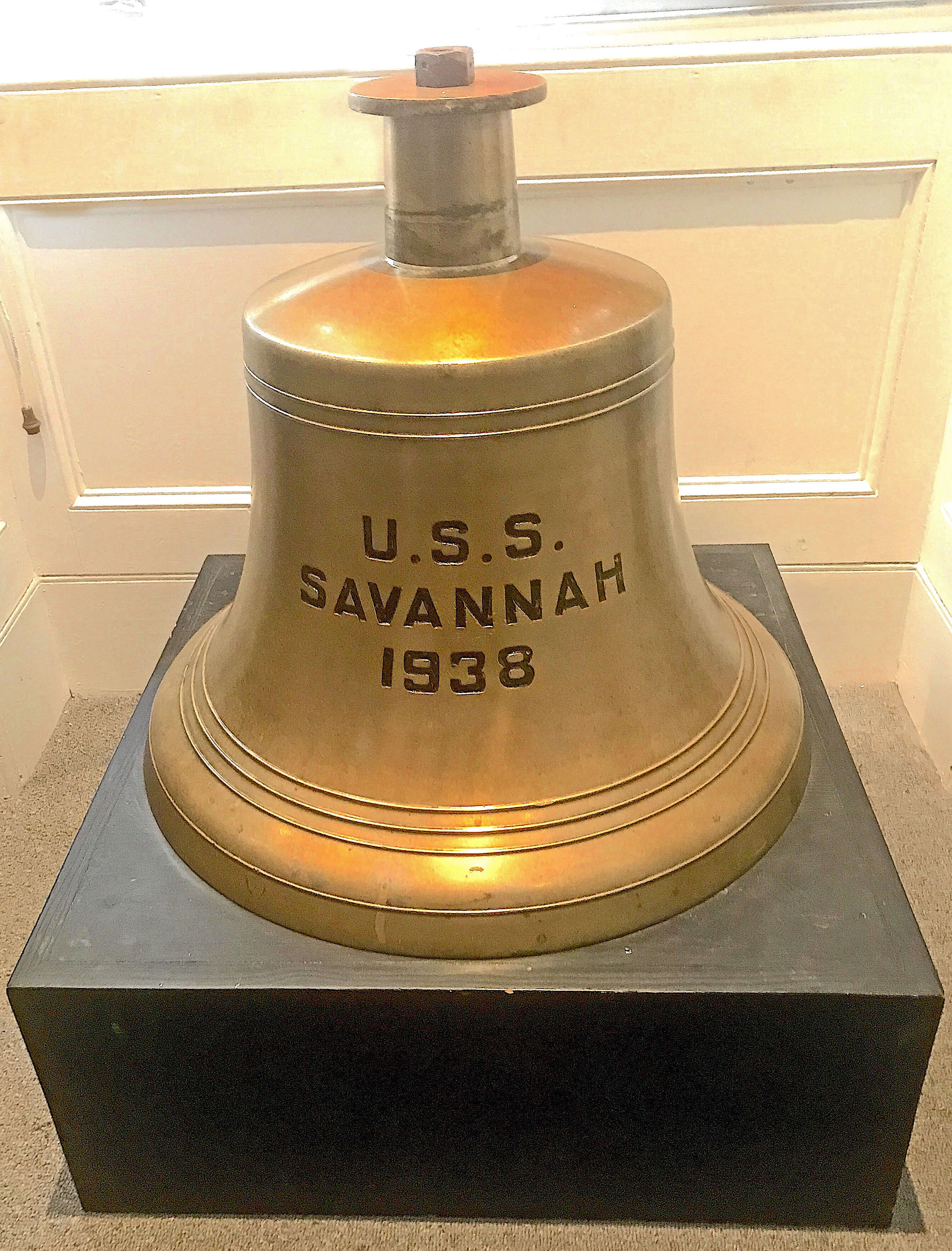 An iPhone photo of the ship's bell of USS Savannah (CL-42), a World War II American light cruiser. Photoshop enhancement was done to compensate for back-lighting conditions. Photo taken at the Ships of the Sea Maritime Museum in Savannah, Georgia, U.S. on November 1, 2018